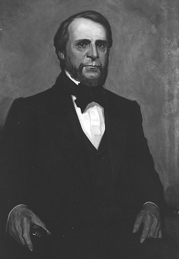 Jospeh R. Williams - potrait